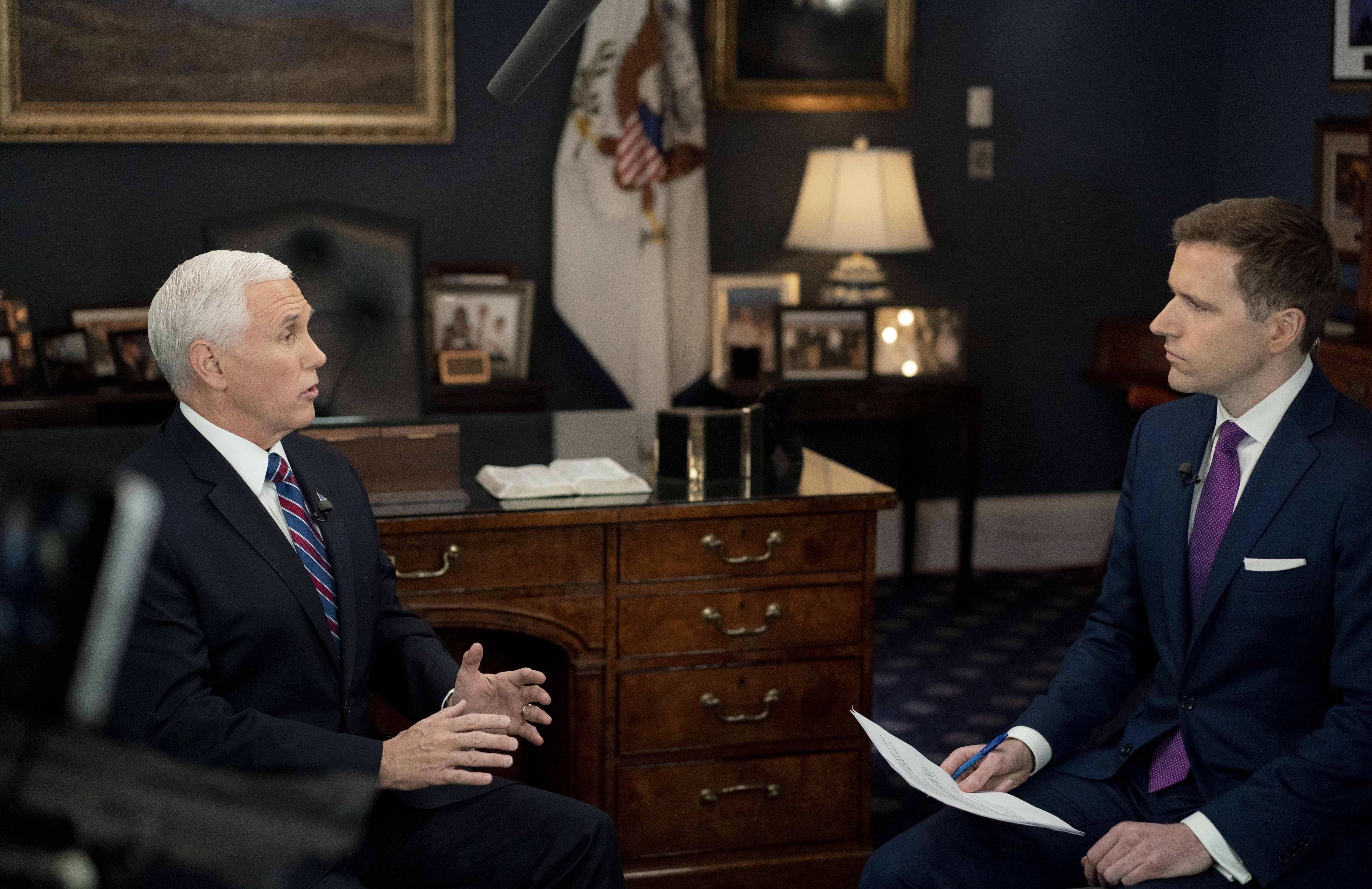 Vice President Mike Pence participates in a taped interview with Wilfred Frost of CNBC Friday, Feb. 7, 2020, in the Vice President’s West Wing office at the White House. (Official White House Photo by D. Myles Cullen)